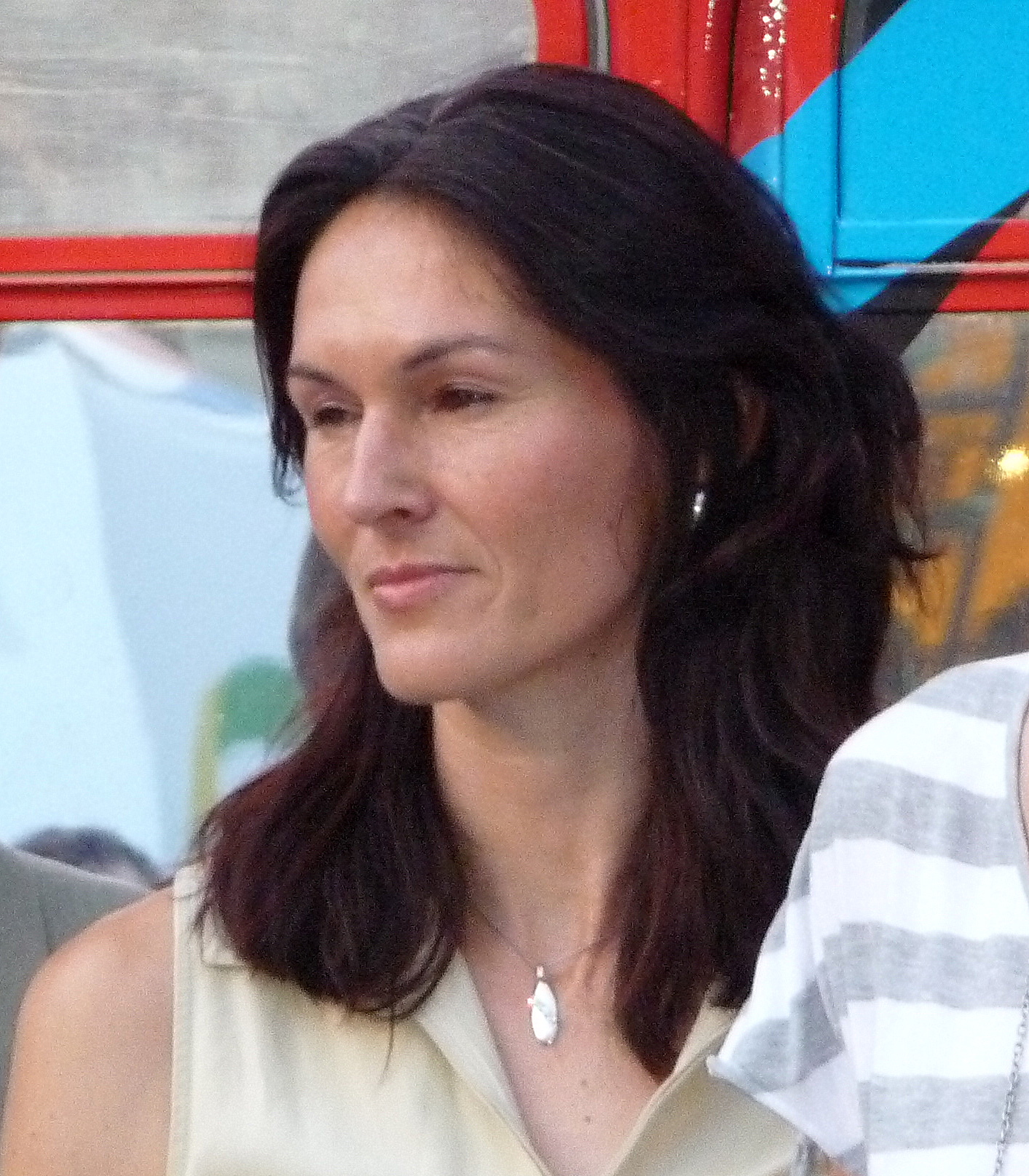 Šárka Kašpárková during joint photographing behind Double-decker, Žijeme Londýnem, Freedom Square, Brno